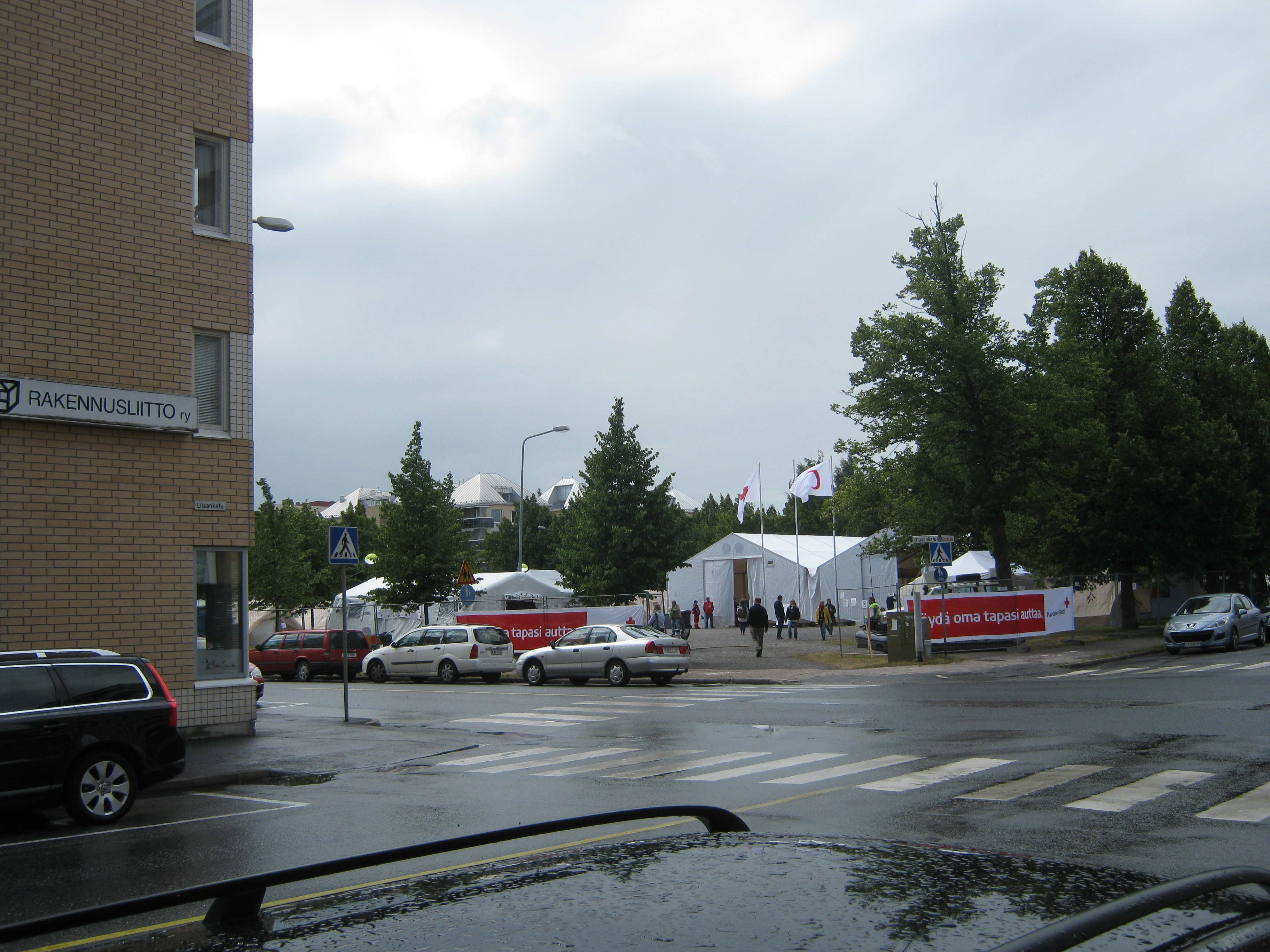 Exhibition of International Red Cross and Red Crescent Movement at Liisantori park, Pori Finland.